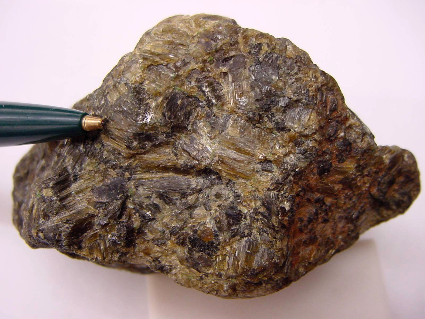 Hypersthene (pen for scale) Mineral collection of Brigham Young University Department of Geology, Provo, Utah - No BYU index